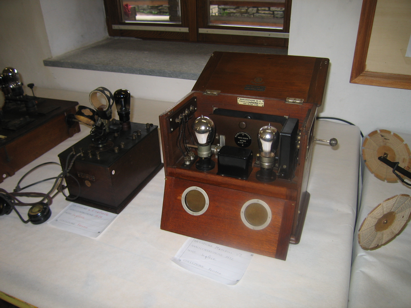 on the right: model: Marconi v.2 (for 'two valves') year: 1922 note: made in the United Kingdom (same brand and model was used in the US, Belgium, Canada etc.) on the left